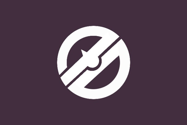 Flag of Natori Miyagi